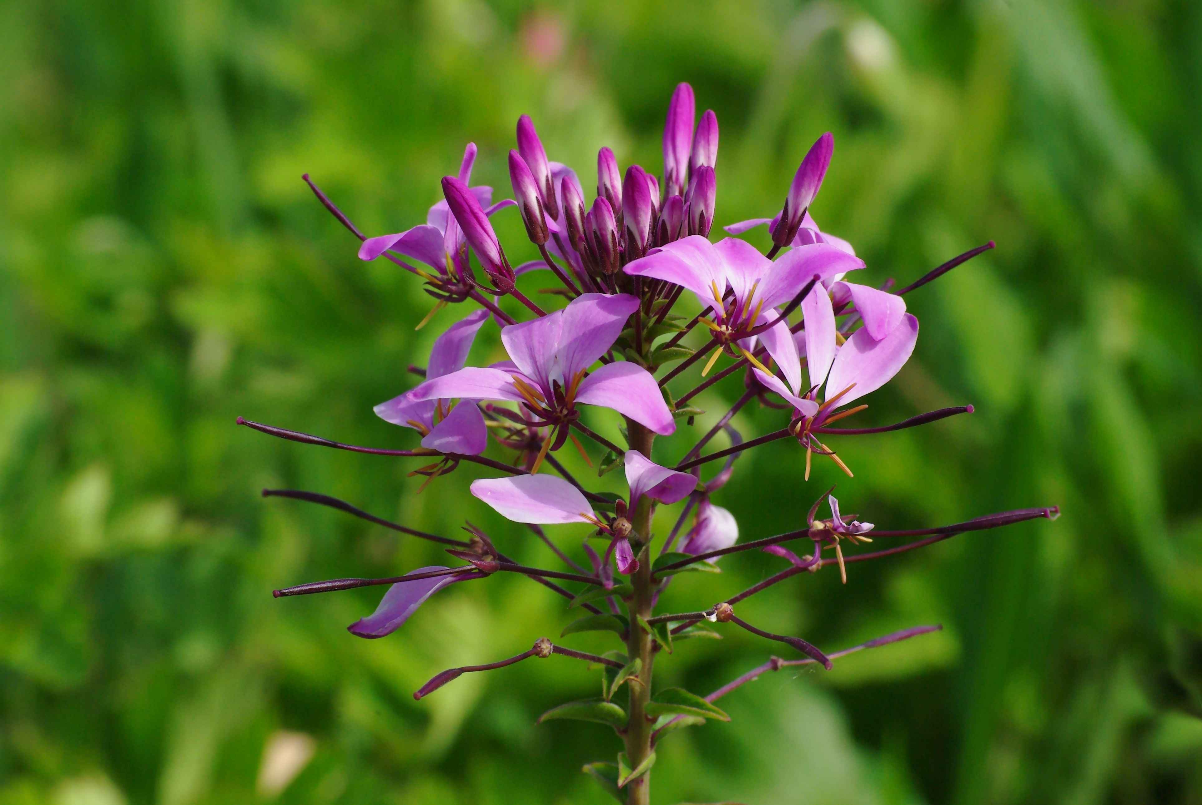 Spiderflower (Cleome spinosa), Jacq. 1760 , garden, France.